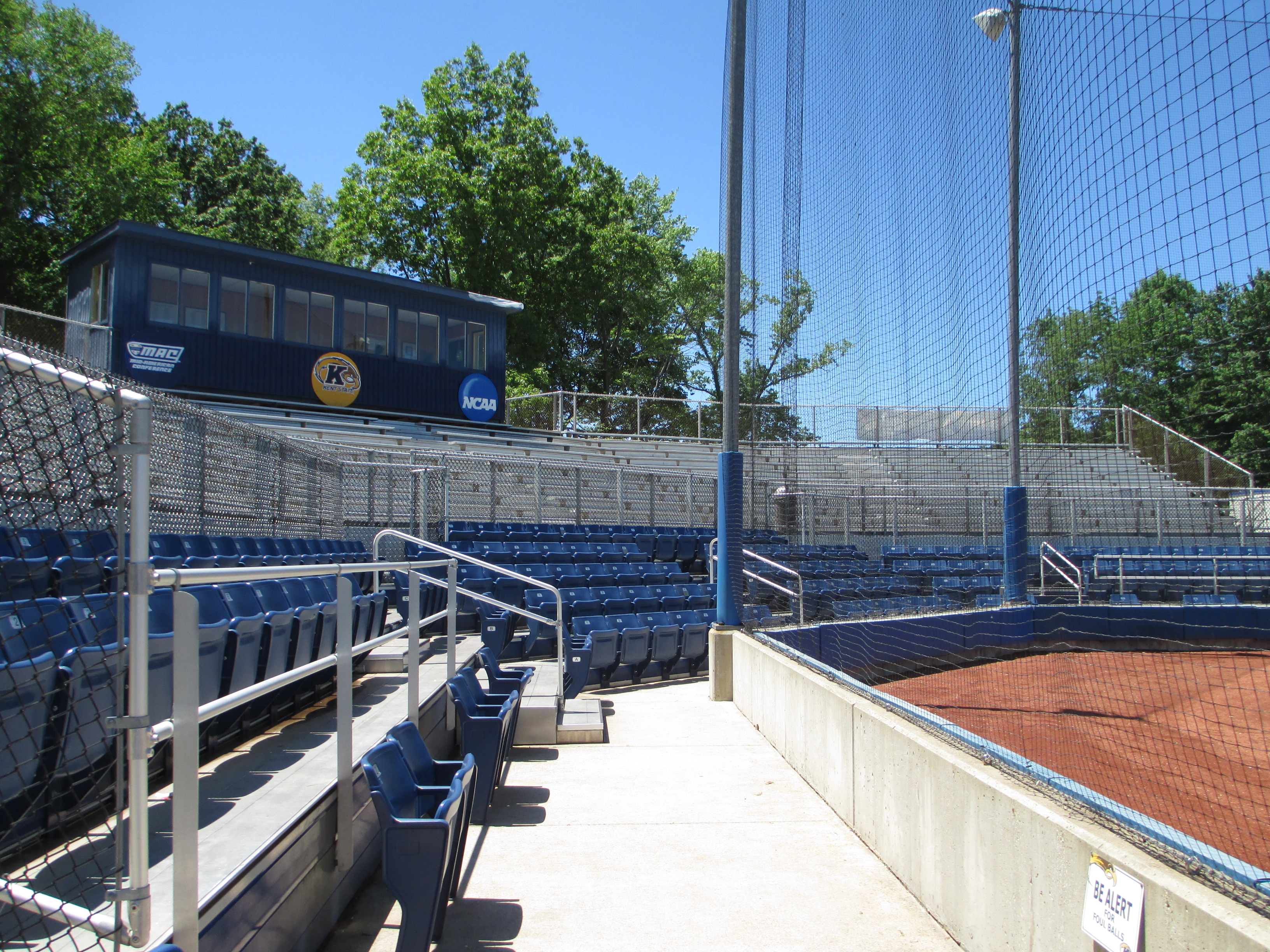 Stands behind home plate at Schoonover Stadium on the campus of Kent State University in Kent, Ohio, United States.